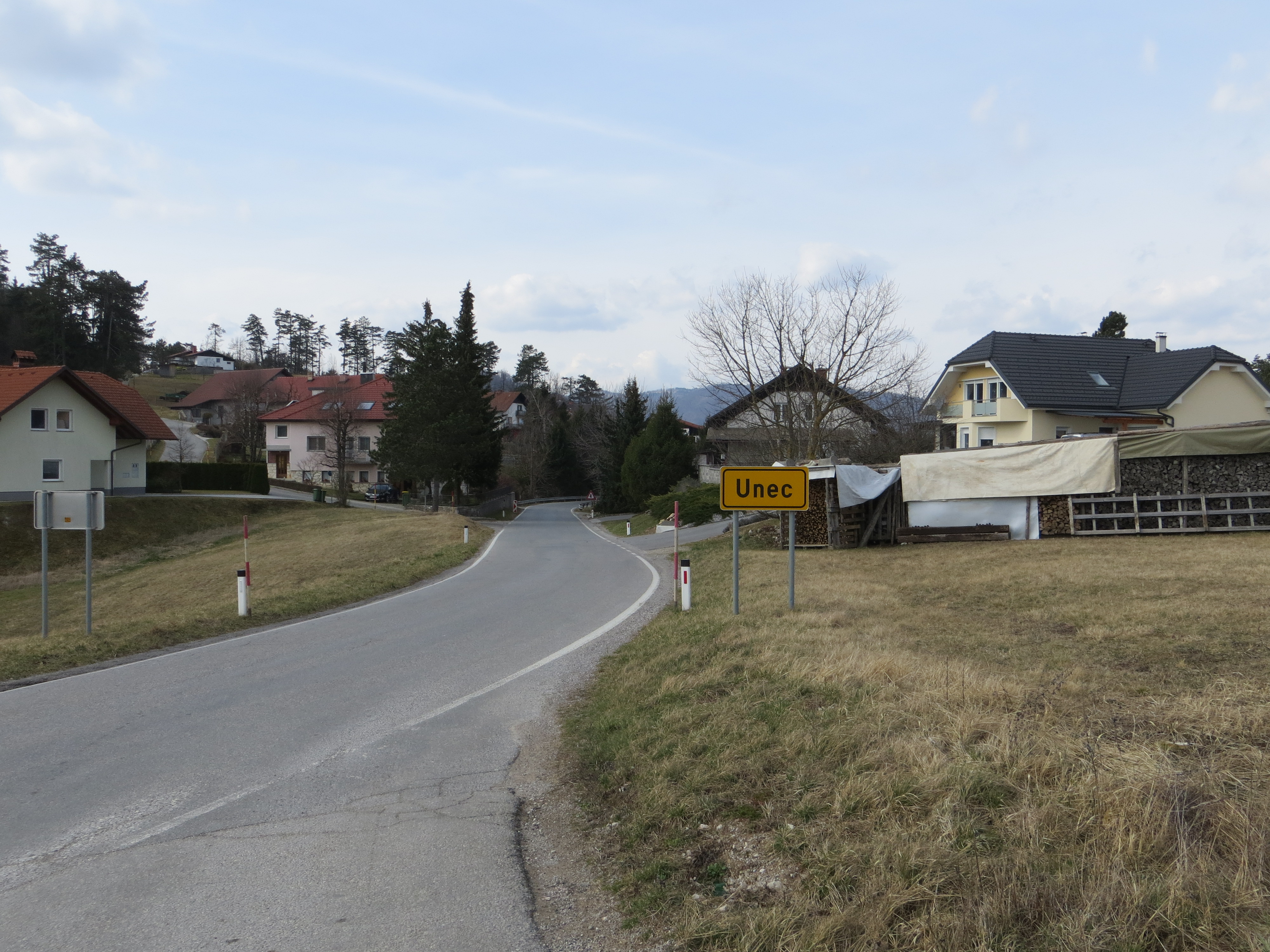 Unec, Municipality of Cerknica, Slovenia